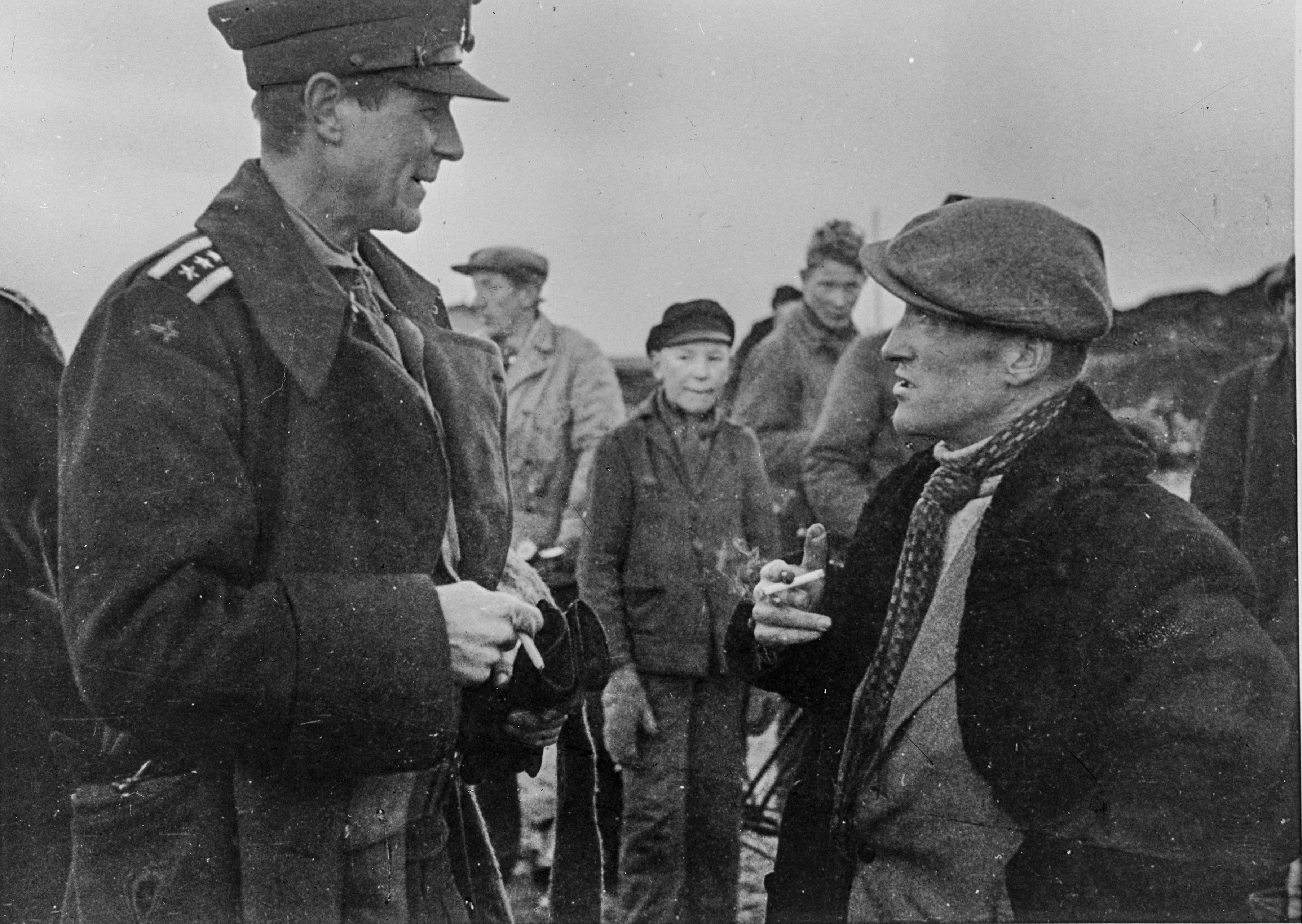 Photos from Flickr album "Evakueringen og frigjøringen av Finnmark" (The Evacuation and Liberation of Finnmark, 2015) ny Riksarkivet (National Archives of Norway). Towards the end of World War II, with Operation Nordlicht, the Germans used the scorched earth tactic in Finnmark and northern Troms to halt the Red Army. As a consequence of this, few houses survived the war, and a large part of the population was forcefully evacuated further south (Tromsø was crowded), but many people avoided evacuation by hiding in caves and mountain huts and waited until the Germans were gone, then inspected their burned homes. There were 11,000 houses, 4,700 cow sheds, 106 schools, 27 churches, and 21 hospitals burned. There were 22,000 communications lines destroyed, roads were blown up, boats destroyed, animals killed, and 1,000 children separated from their parents. However, after taking the town of Kirkenes on 25 October 1944 (as the first town in Norway), the Red Army did not attempt further offensives in Norway. The town was handed over to Norway as the war ended. When war was over, more than 70,000 people were left homeless in Finnmark. The government imposed a temporary ban on residents returning to Finnmark because of the danger of landmines. The ban lasted until the summer of 1945 when evacuees were told that they could finally return home.